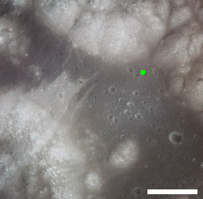 Green dot shows location of Cochise, Taurus-Littrow Valley, on the moon. Scale bar at lower right is 5 km.